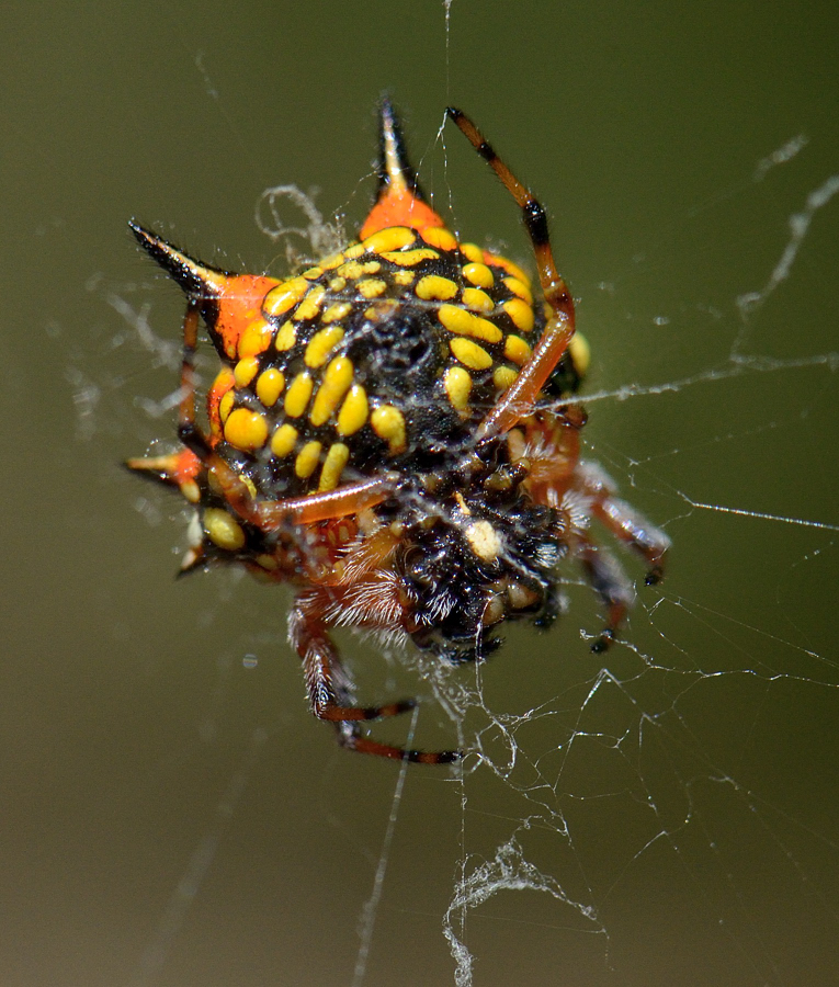 This is a digital photograph of a spider, Austracantha minax, or Christmas spider, on its web. Photographed, 4th January 2013 at 11.47 AM, on a Nikon D7000 camera with 105mm f/2.8 lens, mounted on a tripod. Cropped from a larger image.